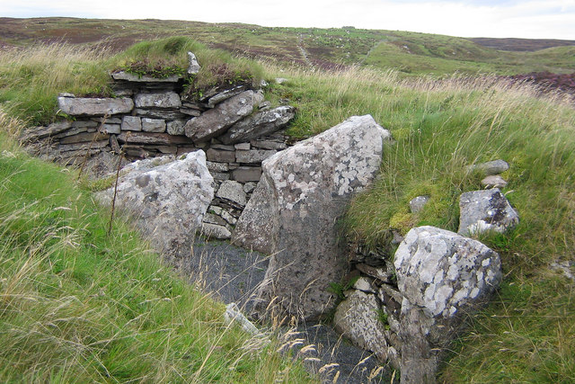 Cairn O'Get Burial Chamber (2) This is a slightly wider view of this burial chamber showing Warehouse Hill in the background.